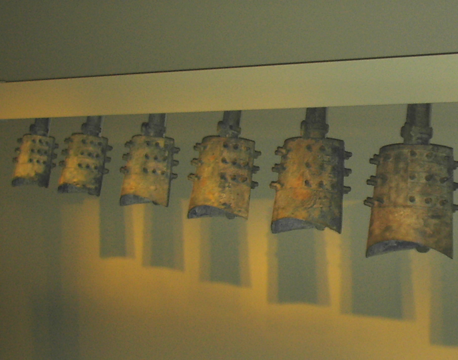 A set of six bronze bells in six graded sizes, from the Chinese Eastern Zhou Dynasty, 6th century BC. These musical bells, along with many other contemporary bells, played an important part in many social activities and political state ceremonies. The majority of Eastern Zhou Dynasty bells are clapperless, save the small hand and harness bells of the period. To produce musical notes, these bells would have been struck from the outside using metal objects such as hammers. According to the size of each bell, two different notes could be played by striking either the bell's center or a side of the concave mouth of the bell. From the Freer and Sackler Galleries of Washington D.C. Author: PericlesofAthens Date: August 3, 2007